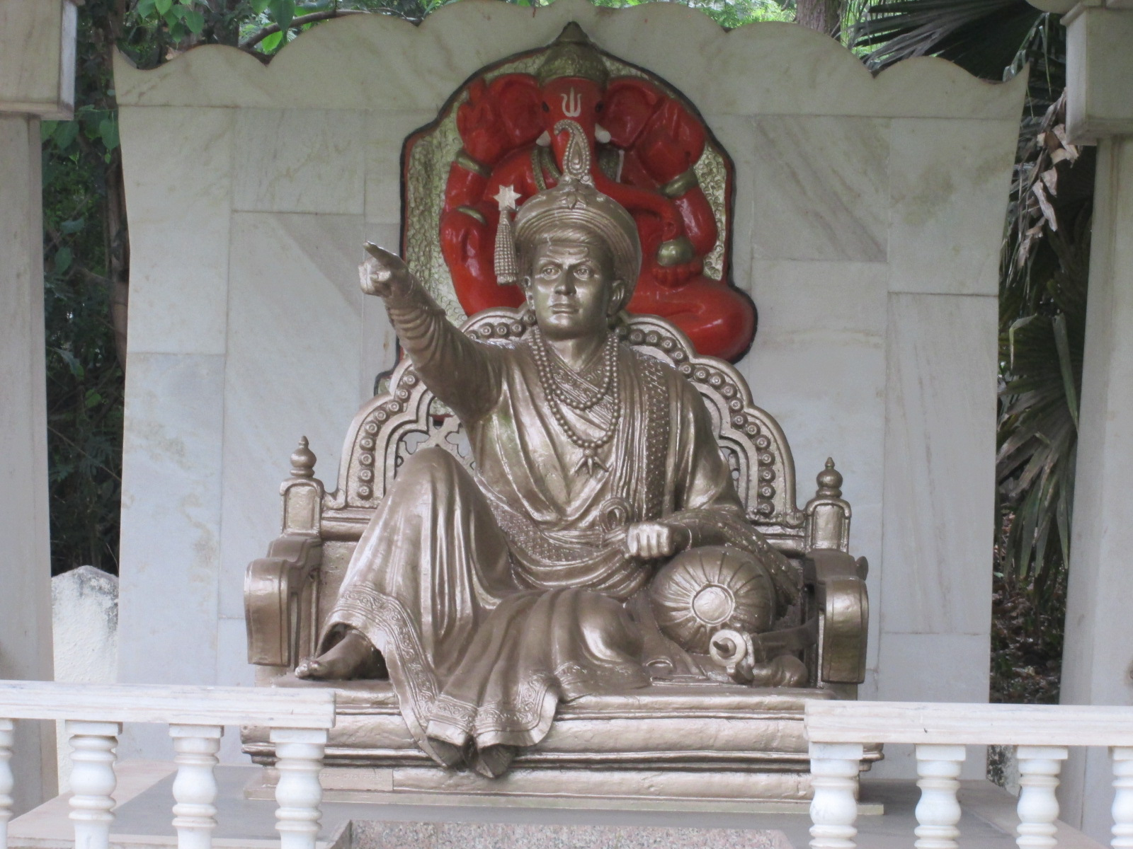 A statue of H.H. Pradhanpant Shrimant Madhavrao Peshwa, the Peshwa of Maratha India. A memorial commemorating H.H. Shrimant Madhavrao Ballal Peshwa is located at Peshwe Park in Pune, India